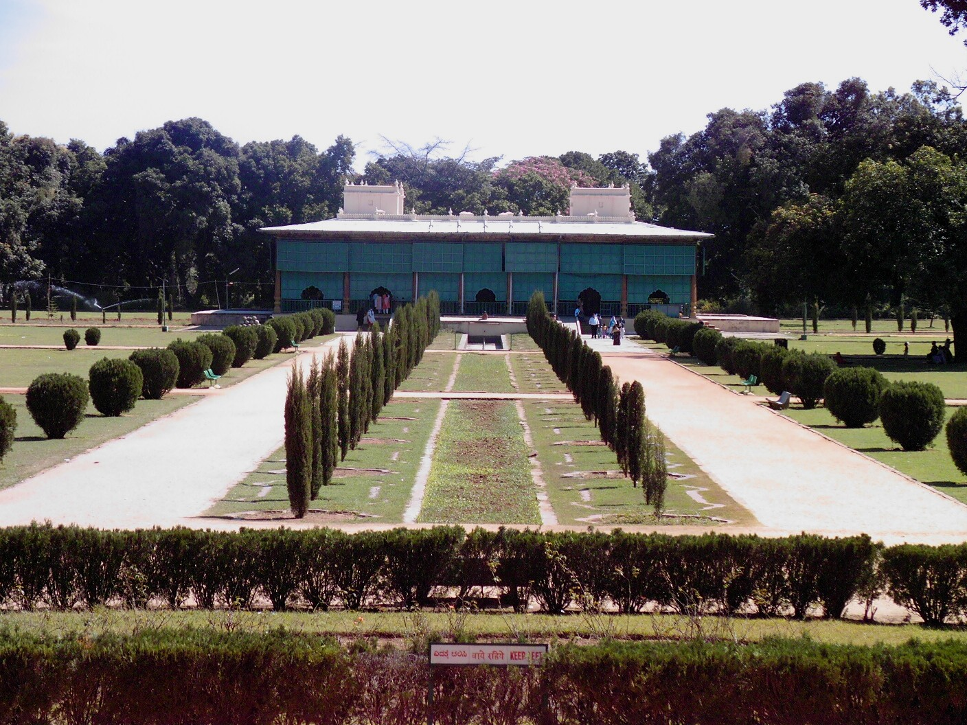 Tipu Sultan's summer palace at Srirangapatna, Karnataka.